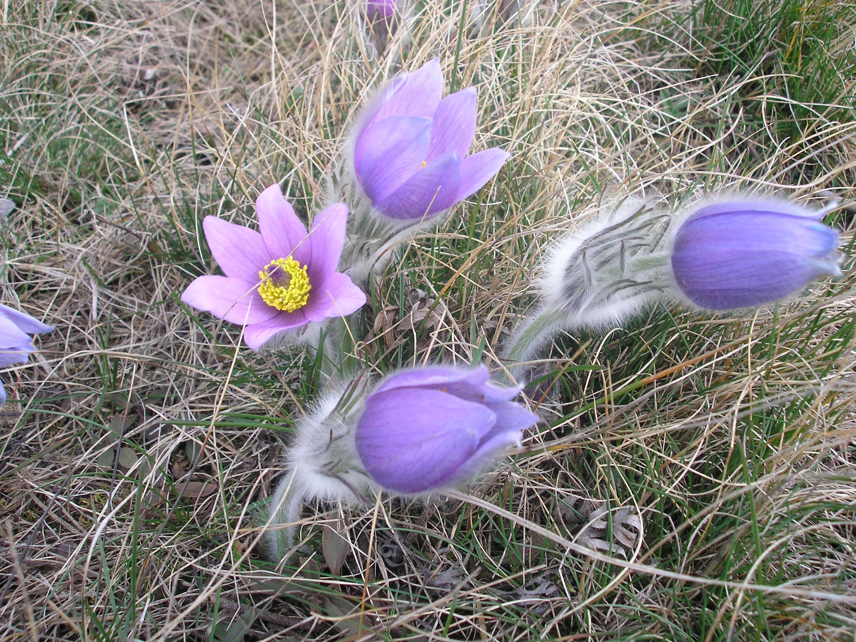 Pulsatilla grandis, made in nature reservation "Kobylinec" near Trnava near Třebíč in the Czech republic.